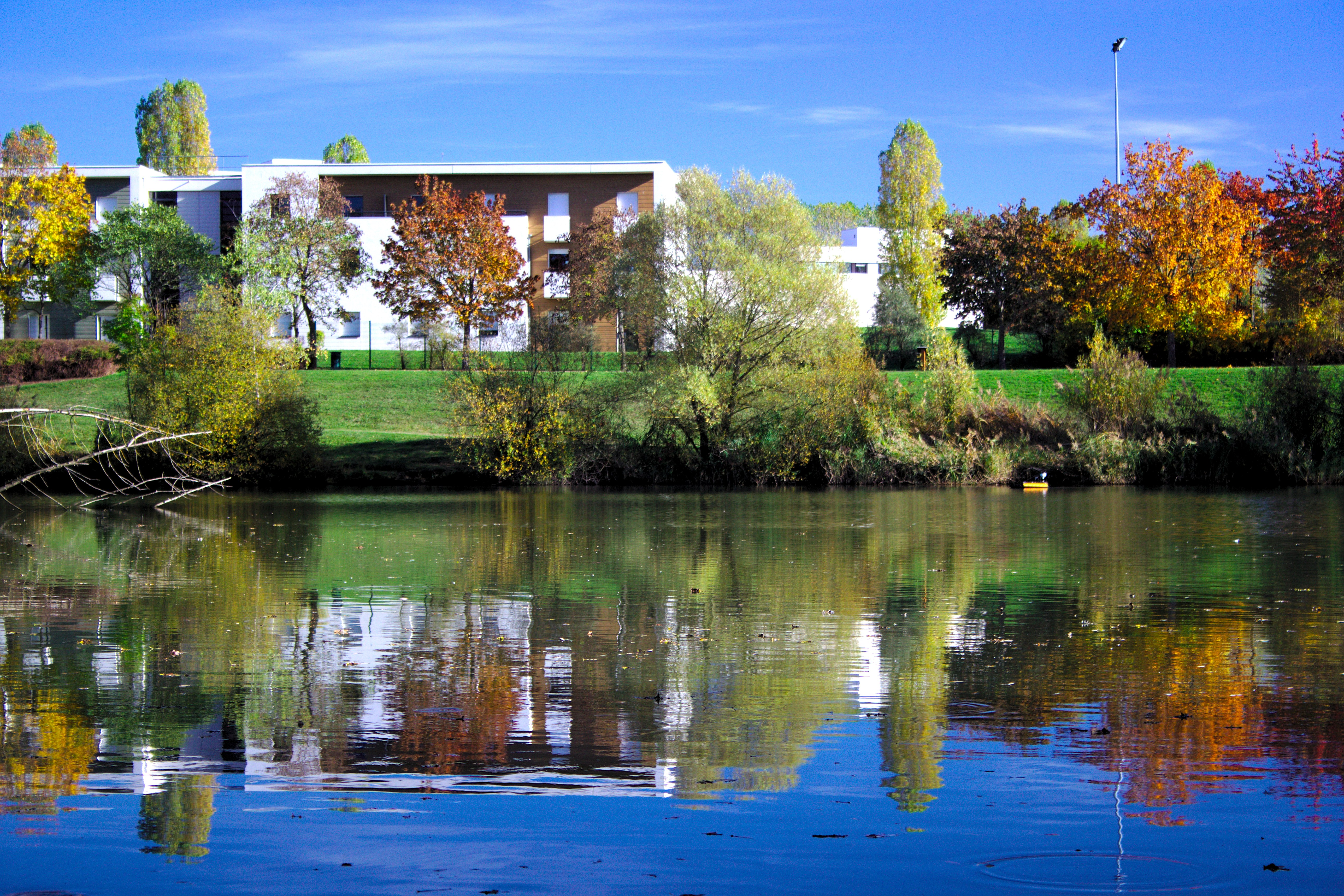 ALOES CentraleSupélec student accommodation on the Metz Technopôle